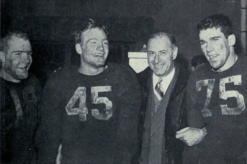 Photograph of Bump Elliott, Pete Elliott, Fritz Crisler and Bruce Hilkene celebrating Michigan's 1947 Big Nine championship